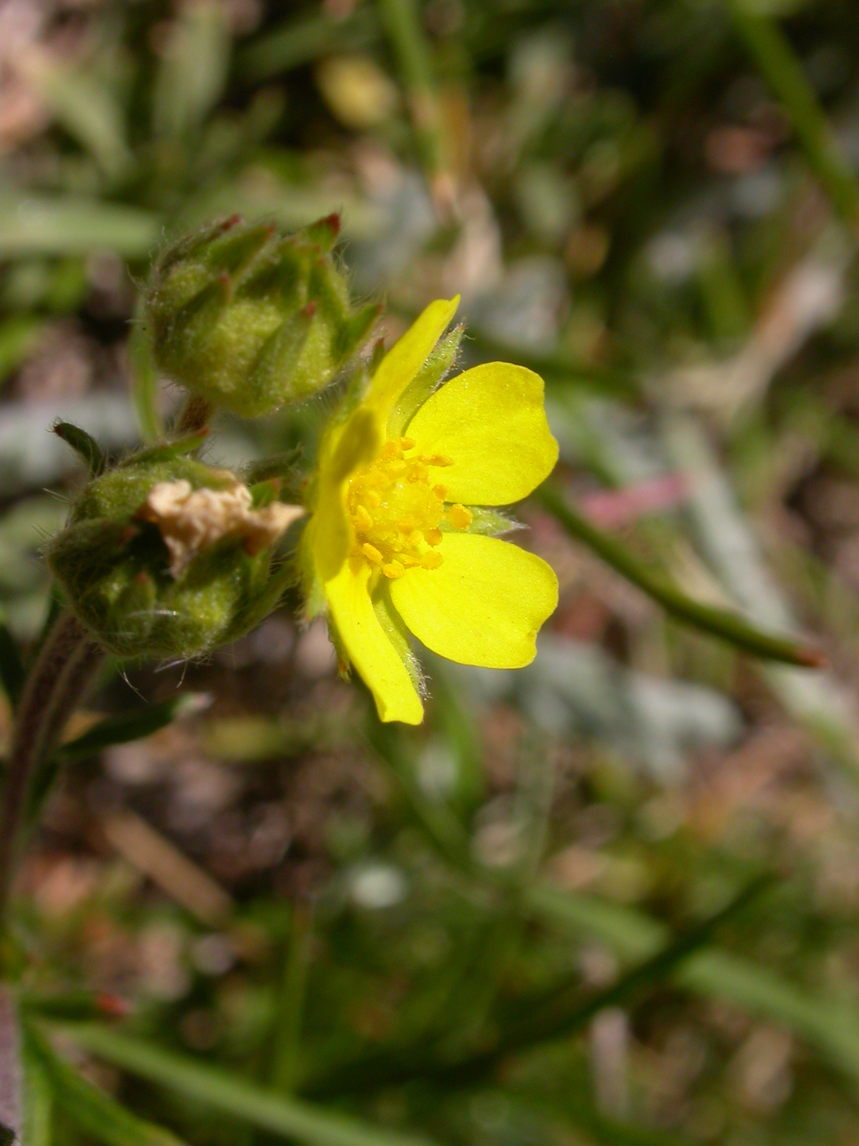 Potentilla multifida Zermatt, Riffelberg (Kanton Wallis, Switzerland), 2500 m Author: Barbara Studer – own photograph Date: 2.08.06